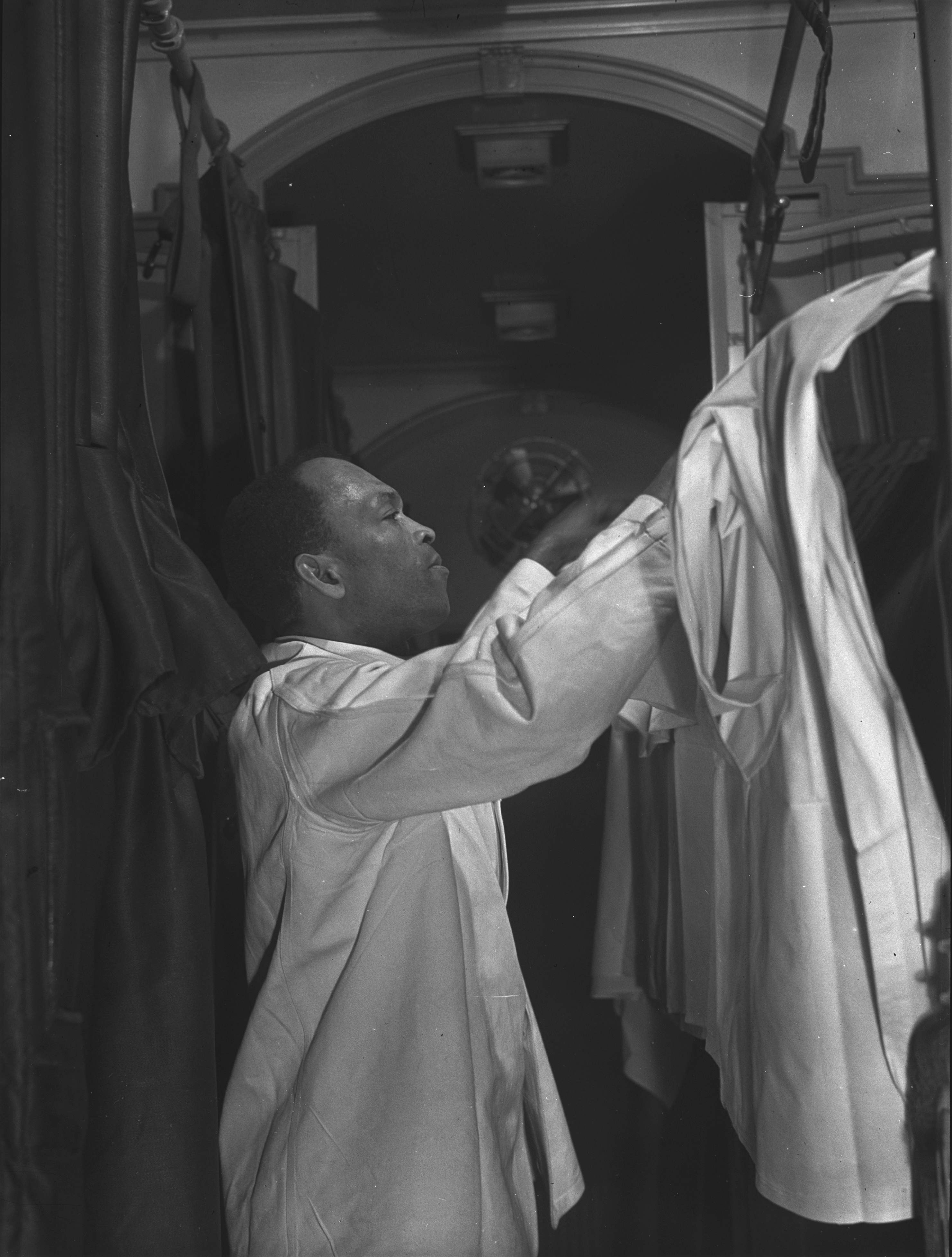 Title: Pullman porter making up an upper berth aboard the "Capitol Limited," bound for Chicago, Illinois Creator(s): Delano, Jack, photographer Date Created/Published: 1942 Mar. Medium: 1 negative : safety ; 3 1/4 x 3 1/4 inches or smaller. Reproduction Number: LC-USW38-000050-D (b&w film neg.) Call Number: LC-USW38- 000050-D [P&P] Repository: Library of Congress Prints and Photographs Division Washington, D.C. 20540 Notes: Actual size of negative is C (approximately 4 x 5 inches). Title and other information from caption card. Transfer; United States. Office of War Information. Overseas Picture Division. Washington Division; 1944. More information about the FSA/OWI Collection is available at Subjects: United States. Format: Safety film negatives. Collections: Farm Security Administration/Office of War Information Black-and-White Negatives Part of: Farm Security Administration - Office of War Information Photograph Collection (Library of Congress) Bookmark This Record